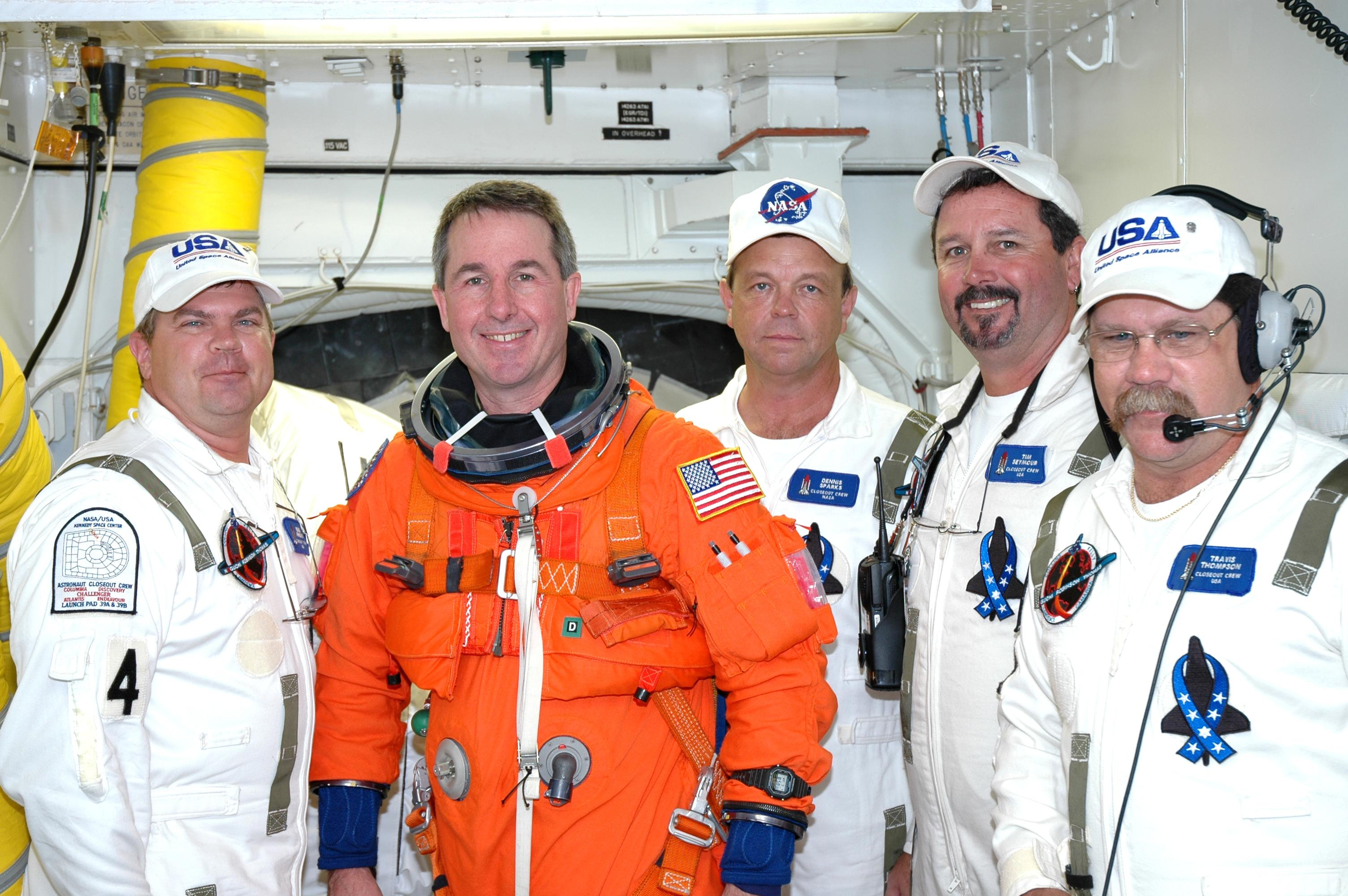 during a launch rehearsal, STS-114 Mission Specialist Stephen Robinson poses with Close-out Crew members René Arriëns (left), USA; Dennis Sparks, NASA; Tim Seymour, USA; and Travis Thompson, USA. Image credit: NASA/KSC